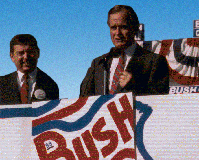 George H. W. Bush Speaking in St. Louis, 1988. Behind him is Missouri Governor John Ashcroft.